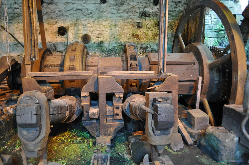 Abbeydale Industrial Hamlet - Tilt Hammers, near to Beauchief, Sheffield, Great Britain. These two hammers are driven via the waterwheel outside SK3281 : Abbeydale Industrial Hamlet - Waterwheels . This runs the horizontal wooden shaft which operates like a camshaft to run the hammers. They made wrought iron sythes. Behind me is a forge for reheating the metal for further working. See also SX6494 : Finch Foundry, Sticklepath